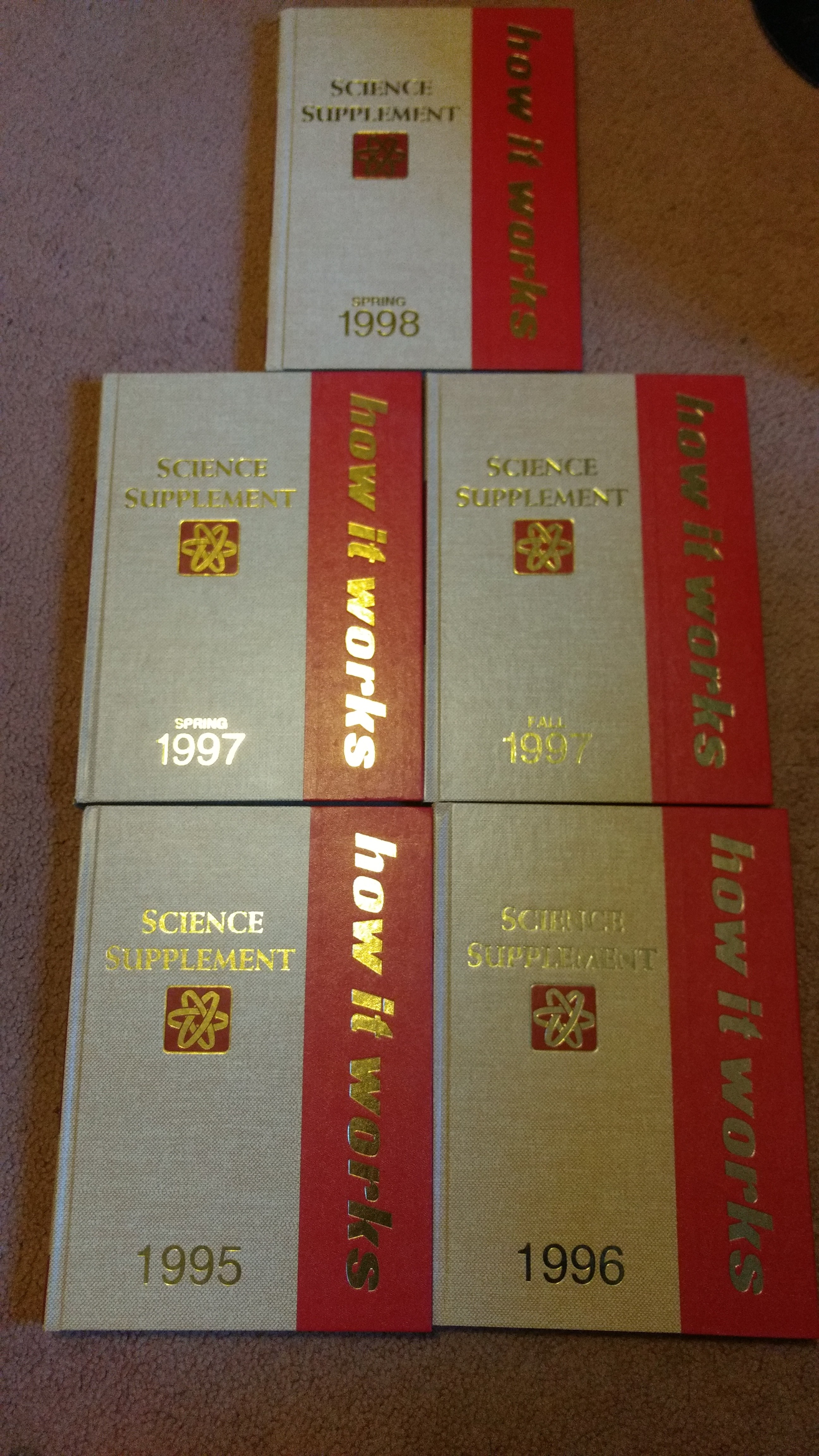 The 1995, 1996, Fall 1997, Spring 1887, and Spring 1998 volumes of the How It Works encyclopedia.